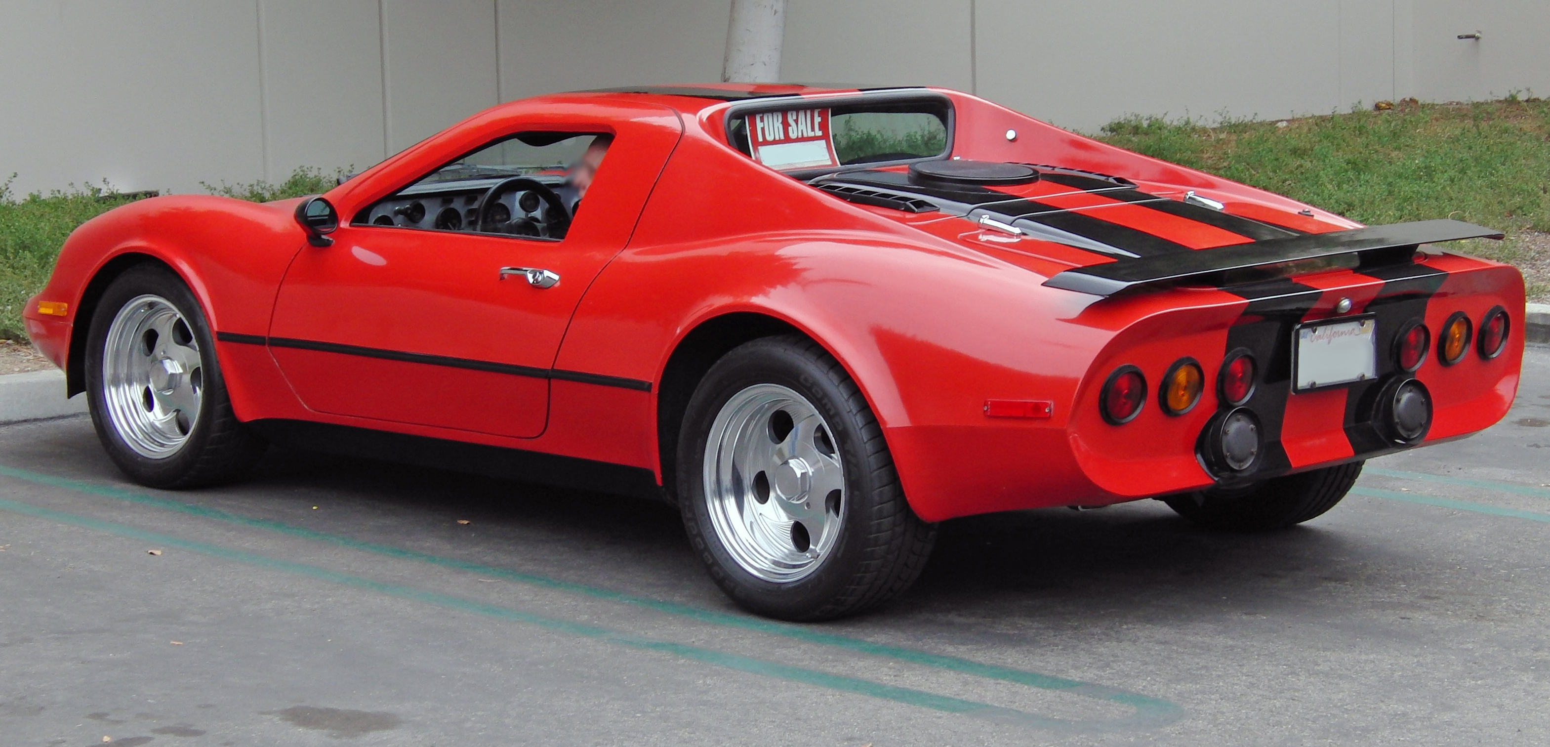 Rear-view of V8-engined Kelmark GT, an American kit car of the malaise era.